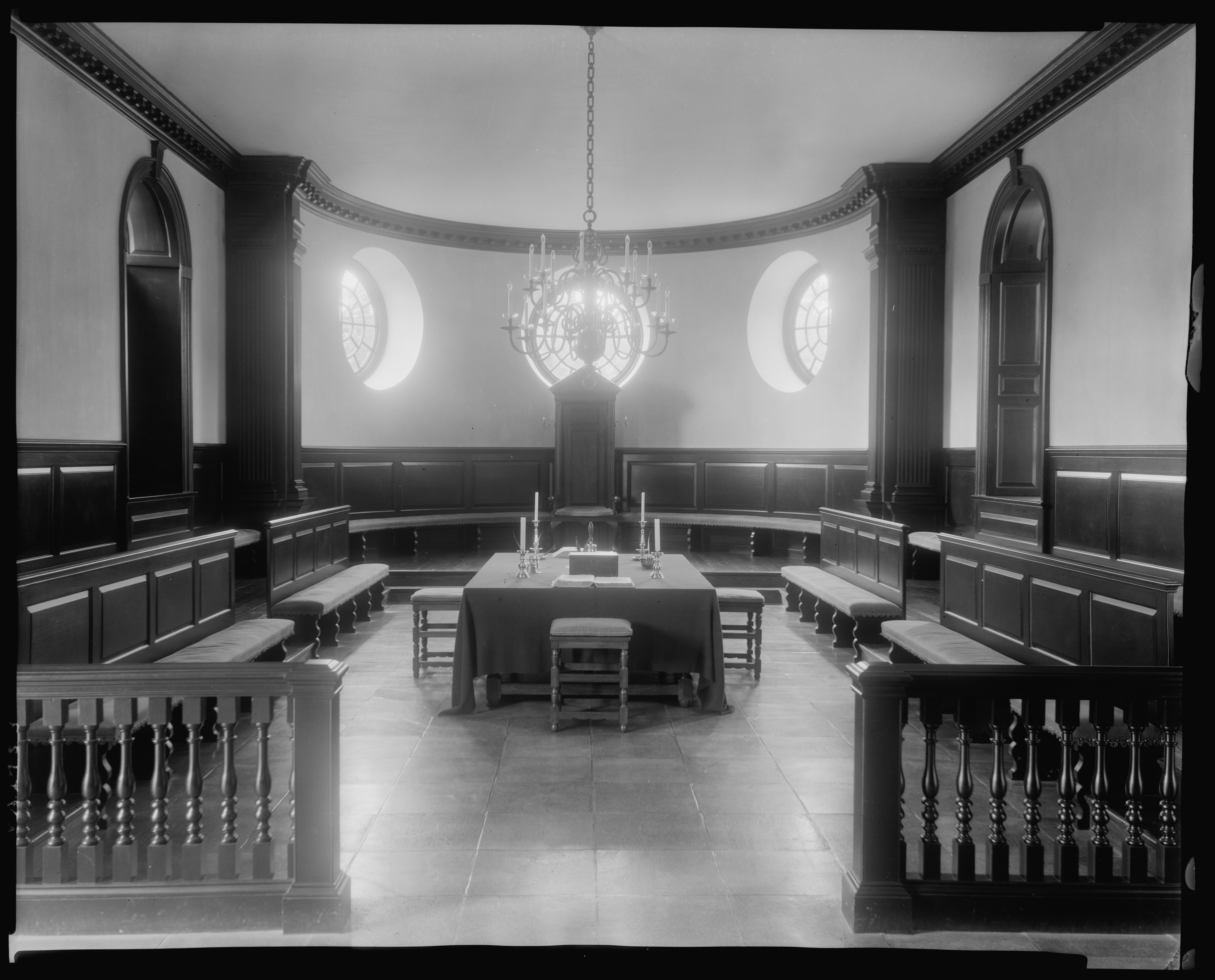 Black and white photographic view of the chamber of the House of Burgesses in the Capitol at Williamsburg, Virginia, James City County, by the American photographer and photojournalist Frances Benjamin Johnston. Dated ca. 1930-1939. From the archives of Frances Benjamin Johnston, which she donated to the Library of Congress in perpetuity, hence there are no restrictions on publication, as per the Library of Congress website. Image courtesy of the Prints and Photographs Division, Library of Congress, Washington, D.C.